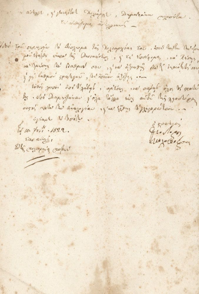 Letter of Theodoros Kolokotronis (1770-1843) to chiliarchos Dimitrakis Plapoutas written during the Greek War of Independance. The letter is dated 10 June 1822.